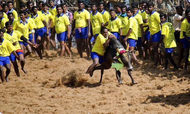 This picture taken in world famous jallikattu event held in palamedu. Amid tight security this event is happening every year the 2nd day of Thai Pongal which collectively called as Maatu Pongal..